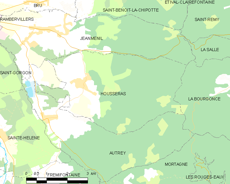 Map of French municipality Housseras